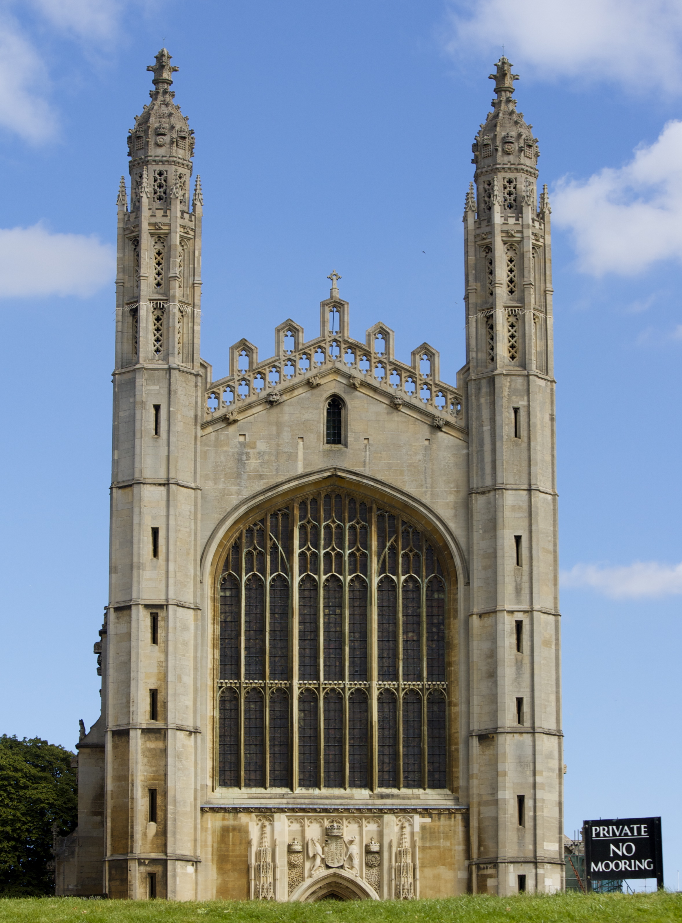 King's College, Cambridge